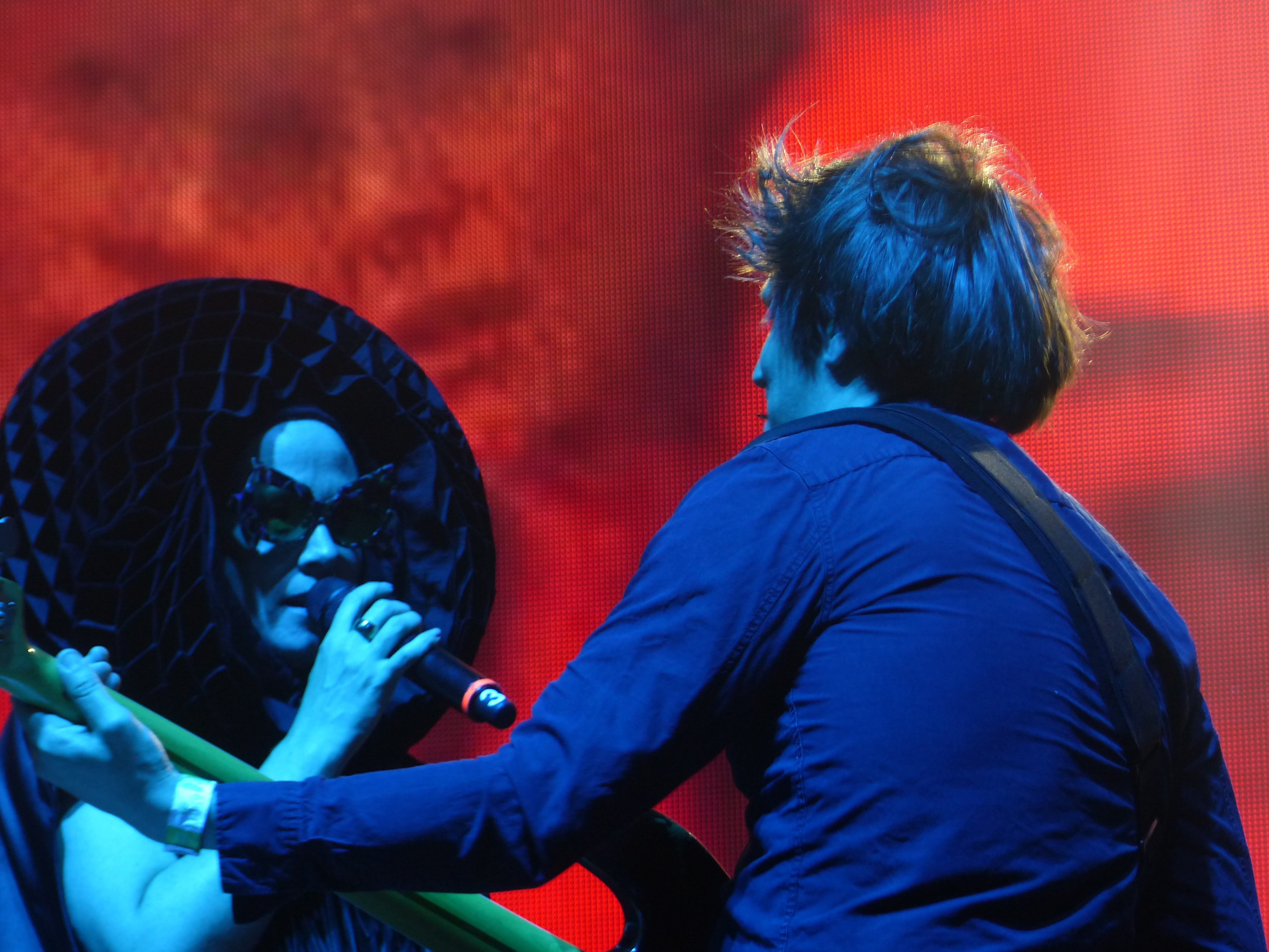 Róisín Murphy and band. Taken on the 14th of August, 2016. A38 Stage, Sziget Festival, Budapest.